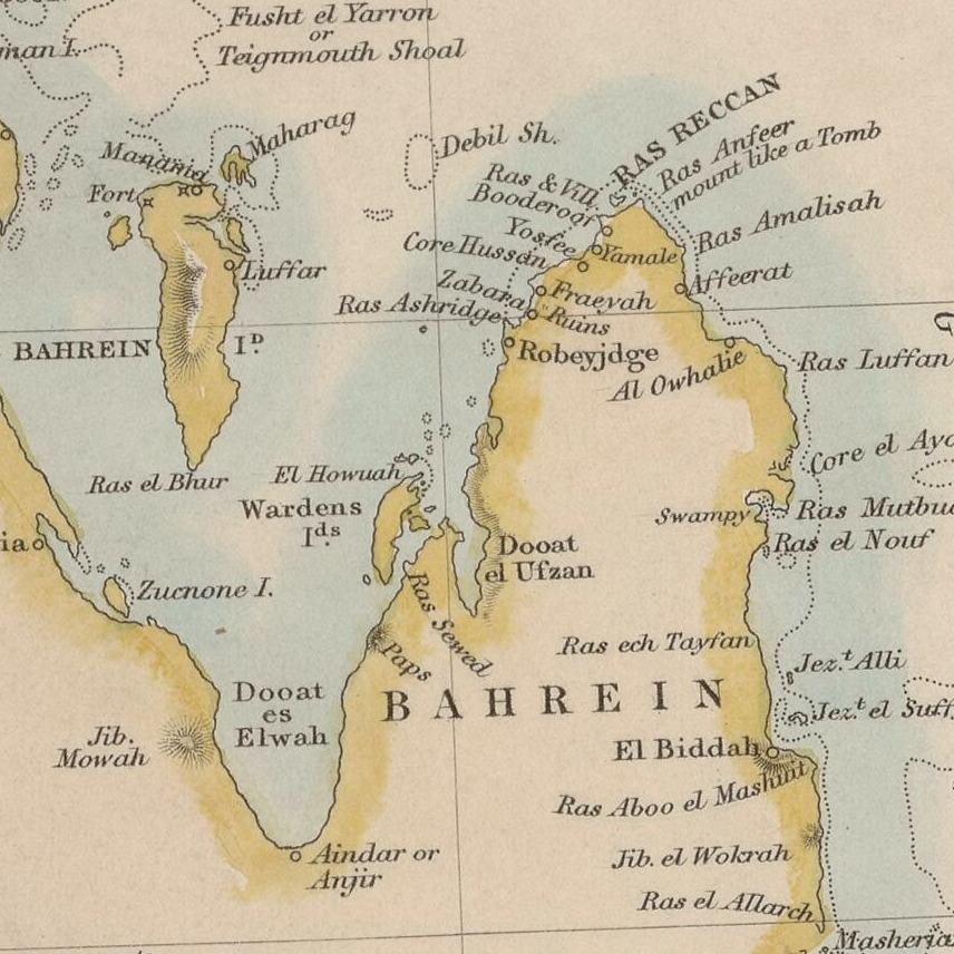 An 1849 map which portrays Bahrain and present-day Qatar.